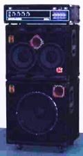 bass amplifier stack An Acoustic 370 head with two David Eden bass loudspeaker cabinets, a 2x10 and a 1x15 This is an original photograph by Andrew Alder, taken on 16 September 2003.